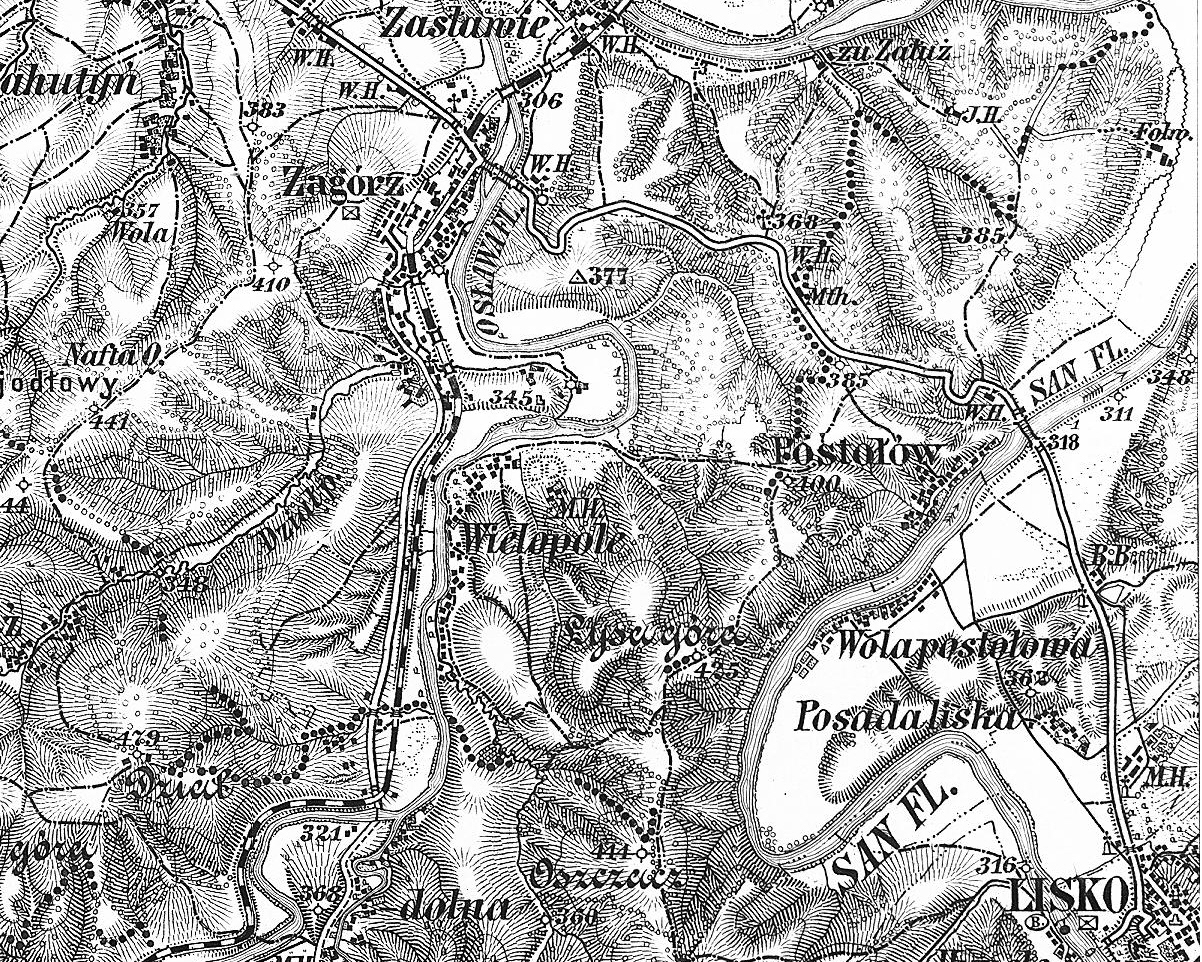 Übersichtsblatt der Spezialkarte der österreichisch-ungarischen Monarchie 1:75.000 und der im Maßstabe 1:75.000 vorhandenen Auslandsblätter The map of Austria - Hungary 1877, fragment